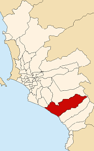 Map of Lima highlighting the Lurín district in southern Lima.